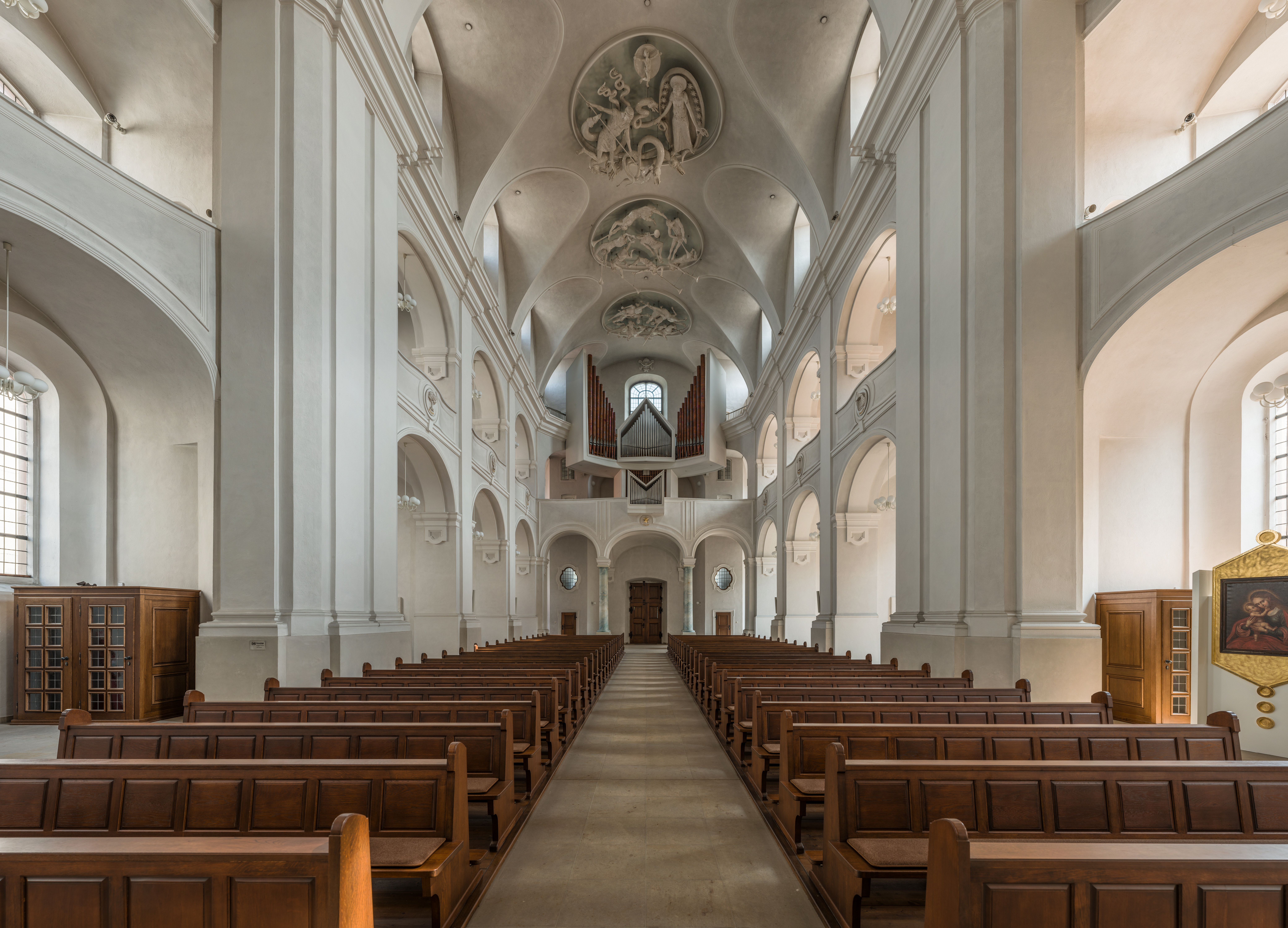 The nave and organ of St. Michael, WürzburgThis is a photograph of an architectural monument.